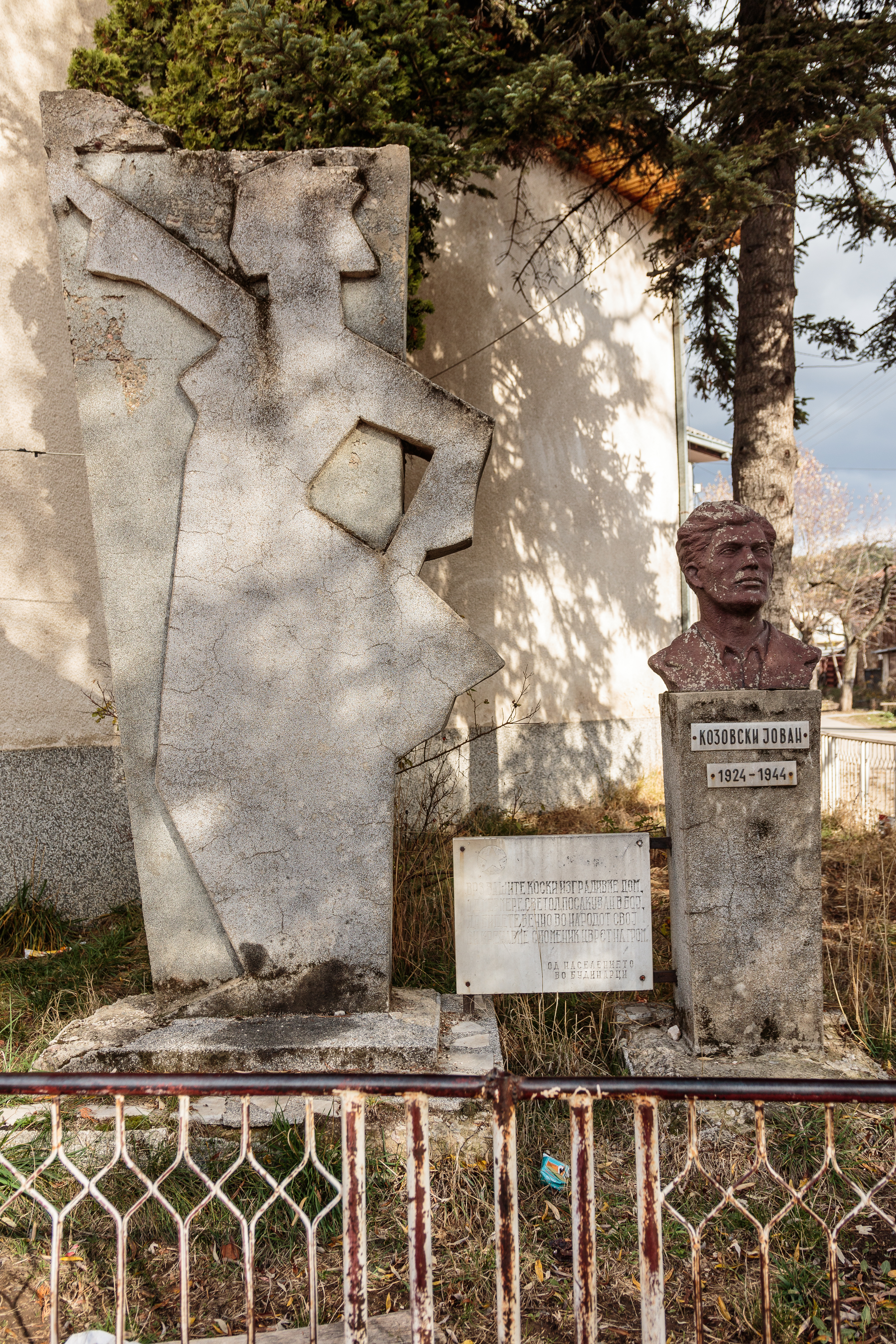 Monuments dedicated to the National Liberation War of Macedonia in the village of Budinarci, Maleševija, Macedonia